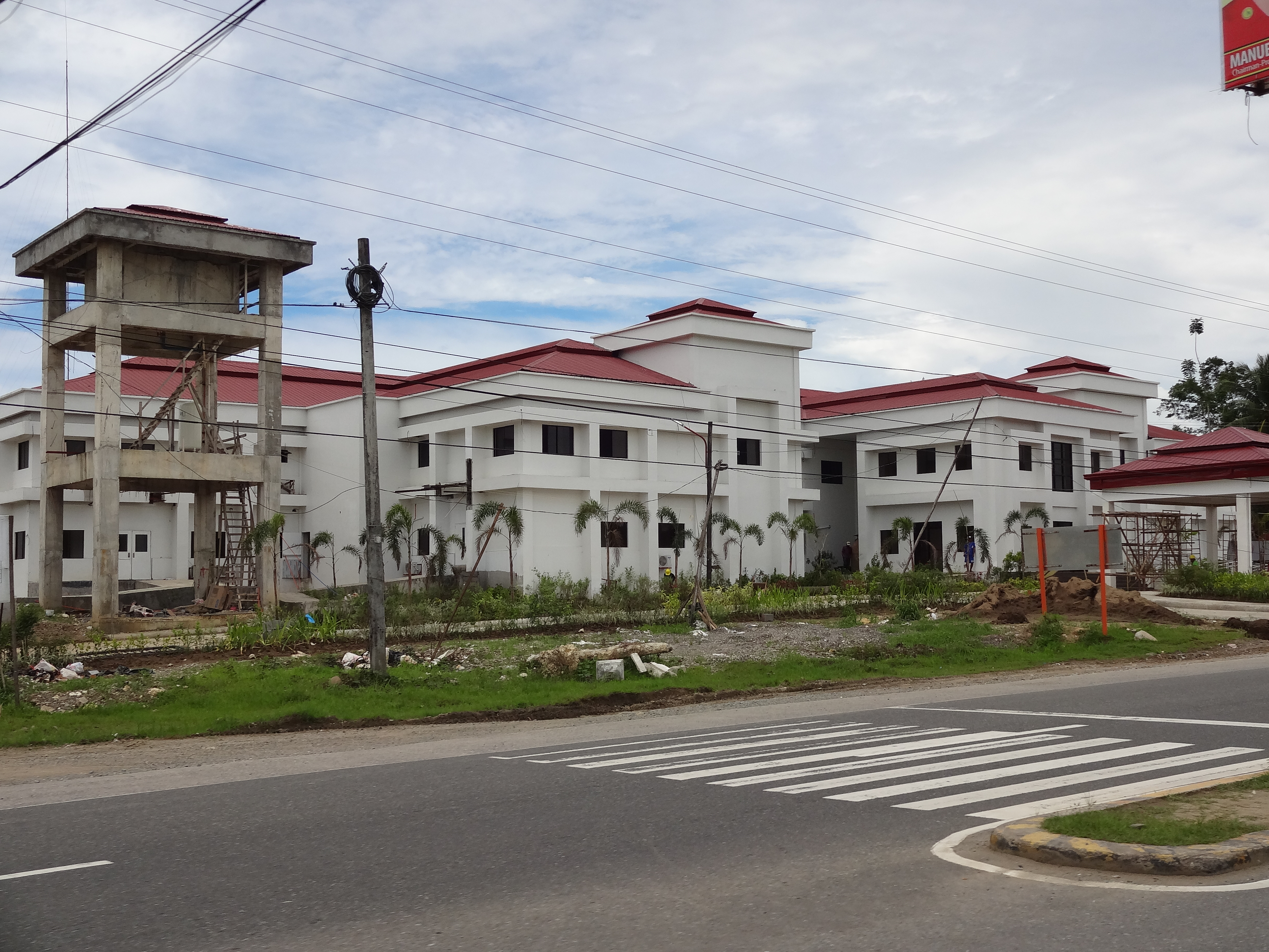 This is my own work. The New D.O. Plaza Memorial Hospital building located at Prosperidad, Agusan del Sur.